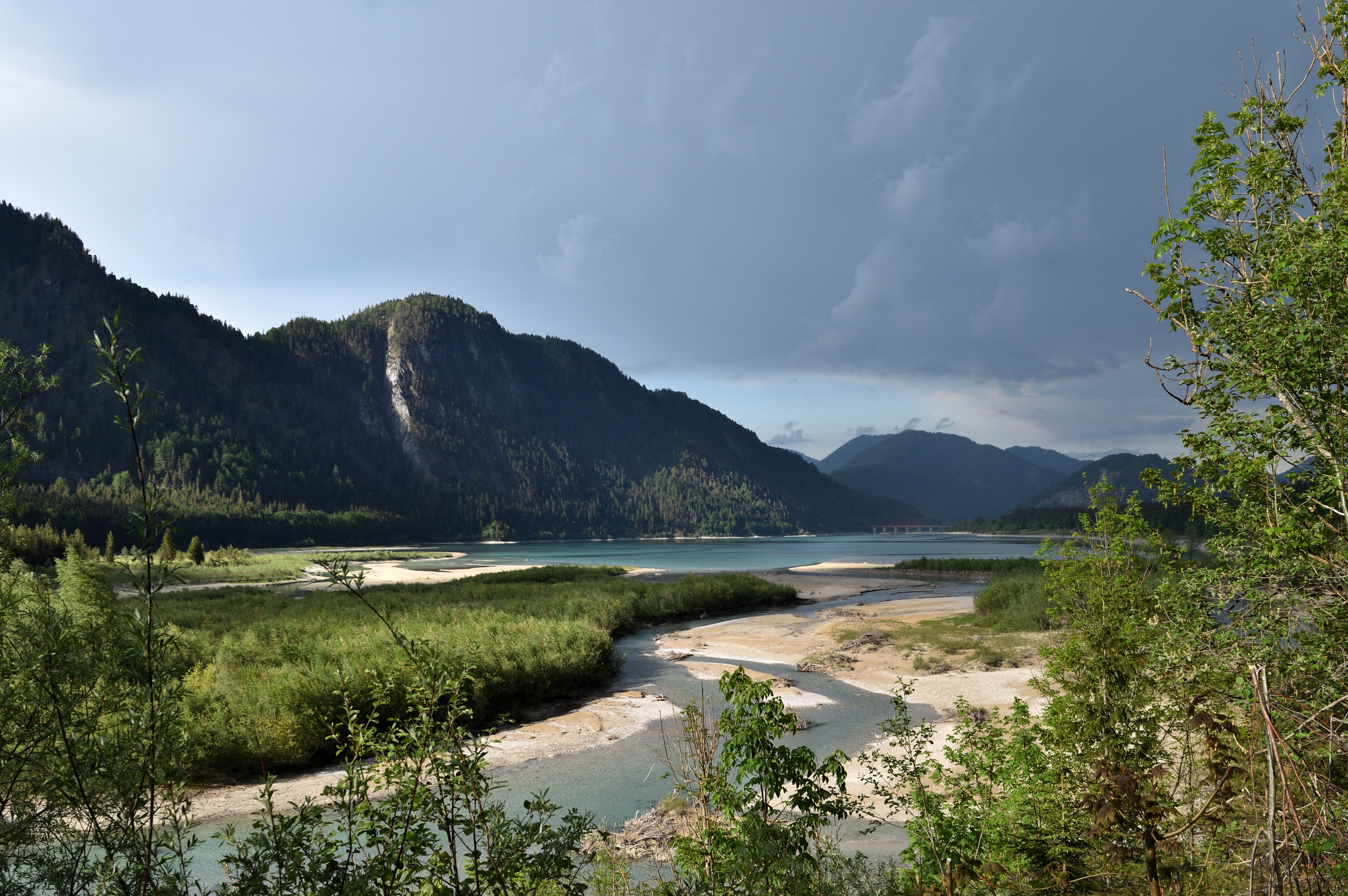 Isar river flowing into Sylvensteinsee - May 2018 - Situated in Sylvensteinsee und oberes Isartal Protected Landscape